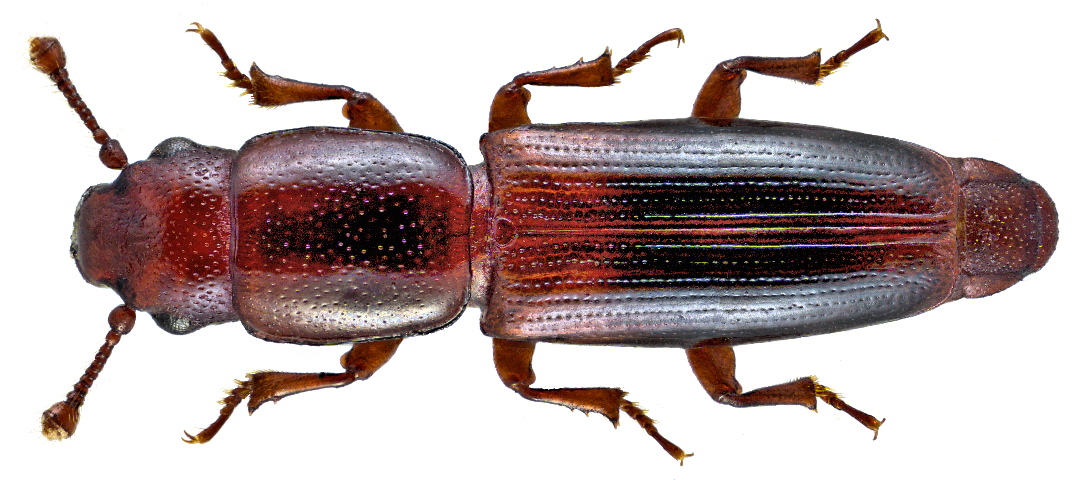 Family: Monotomidae Size: 4,0 mm (3,0-4,3 mm) Origin: Europe Ecology: especially under deciduous trees bark Location: Germany, Bavaria, Upper Franconia, Selbitz leg.det. U.Schmidt, 10.VII.2001 Photo: U.Schmidt, 2014